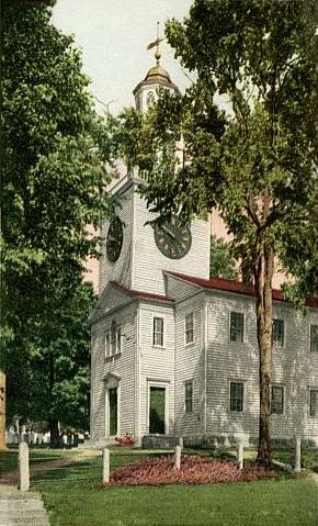 Congregational Church, Lenox, MA; from a c. 1910 postcard. The Church on the Hill was built in 1805 by Benjamin D. Goodrich, and dedicated January 1, 1806.